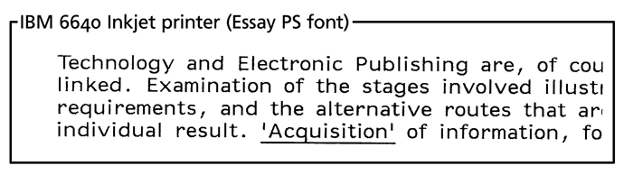 I set these samples on the various systems in 1980-81, after which they were printed offset litho (all on the same page, at the same time). This image was scanned 2007-12-12 from the printed version, so it will not have the edge fidelity of the original paste-up. The scan brightness (+6) and contrast (+29) were enhanced, frames and captions (in Frutiger Linotype) added and size was reduced (Bicubic) using Photoshop CS2.